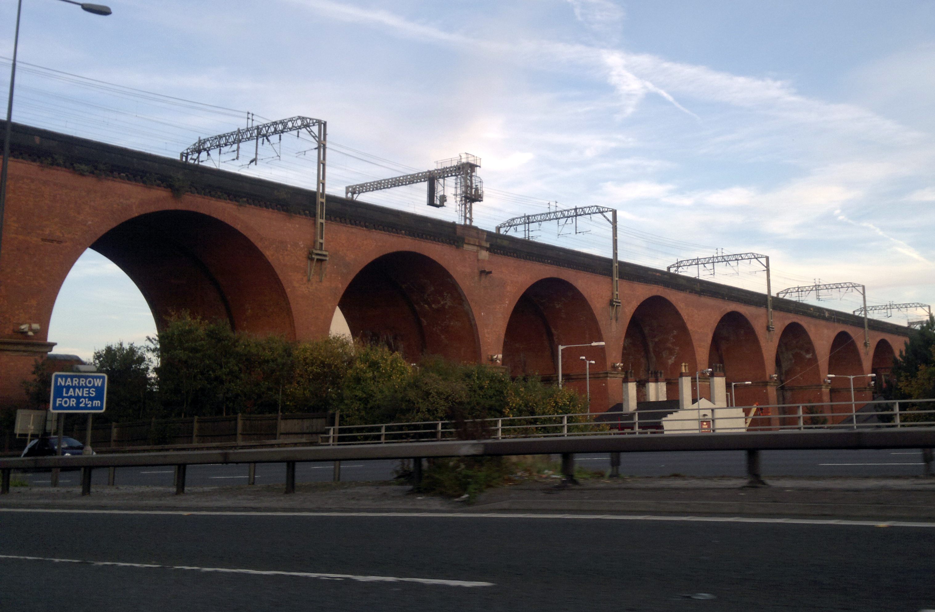 Stockport Viaduct. Carries the West Coast Main Line. Grade II*